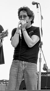 Paul Butterfield, Woodstock Reunion, 9/7/79. Parr Meadows, Ridge, NY.